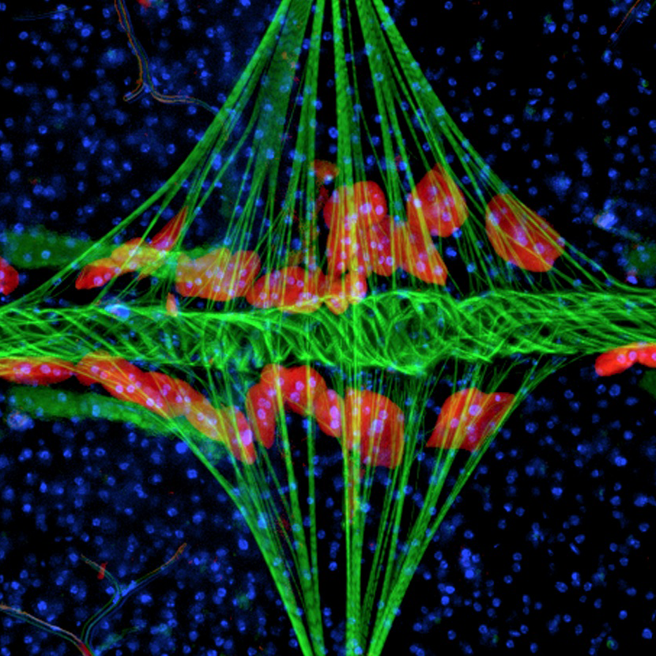 This fluorescence image details the structural organization of the heart of the mosquito Anopheles gambiae. The point of view is top down, with the mosquito's body lying horizontally with its head to the left (outside of the image). Muscle is labeled with phalloidin (green), and shows the tube-like heart extending horizontally across the body and the diamond shaped alary muscles projecting vertically onto the heart. The pericardial cells, labeled with 568 nm-Immunoglobulin G (red), are pinocytic cells that flank the heart. Cell nuclei are labeled with Hoechst 33342 (blue). Image Credit: Jonas G. King and Julián F. Hillyer, Department of Biological Sciences, Vanderbilt University. Issue image, PLOS Pathogens, November 2012.